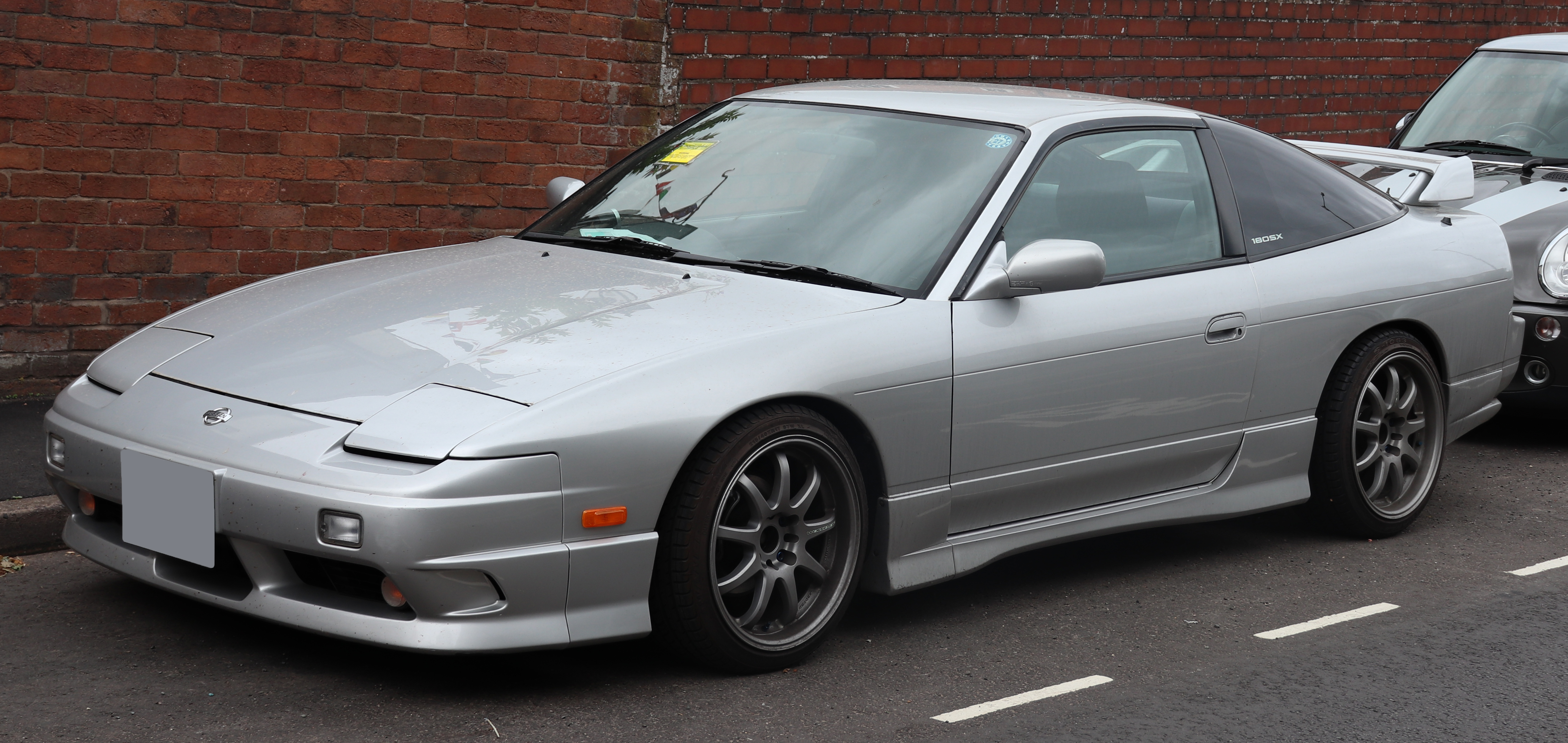 1996 Nissan 180SX 2.0 Front Taken in Warwick